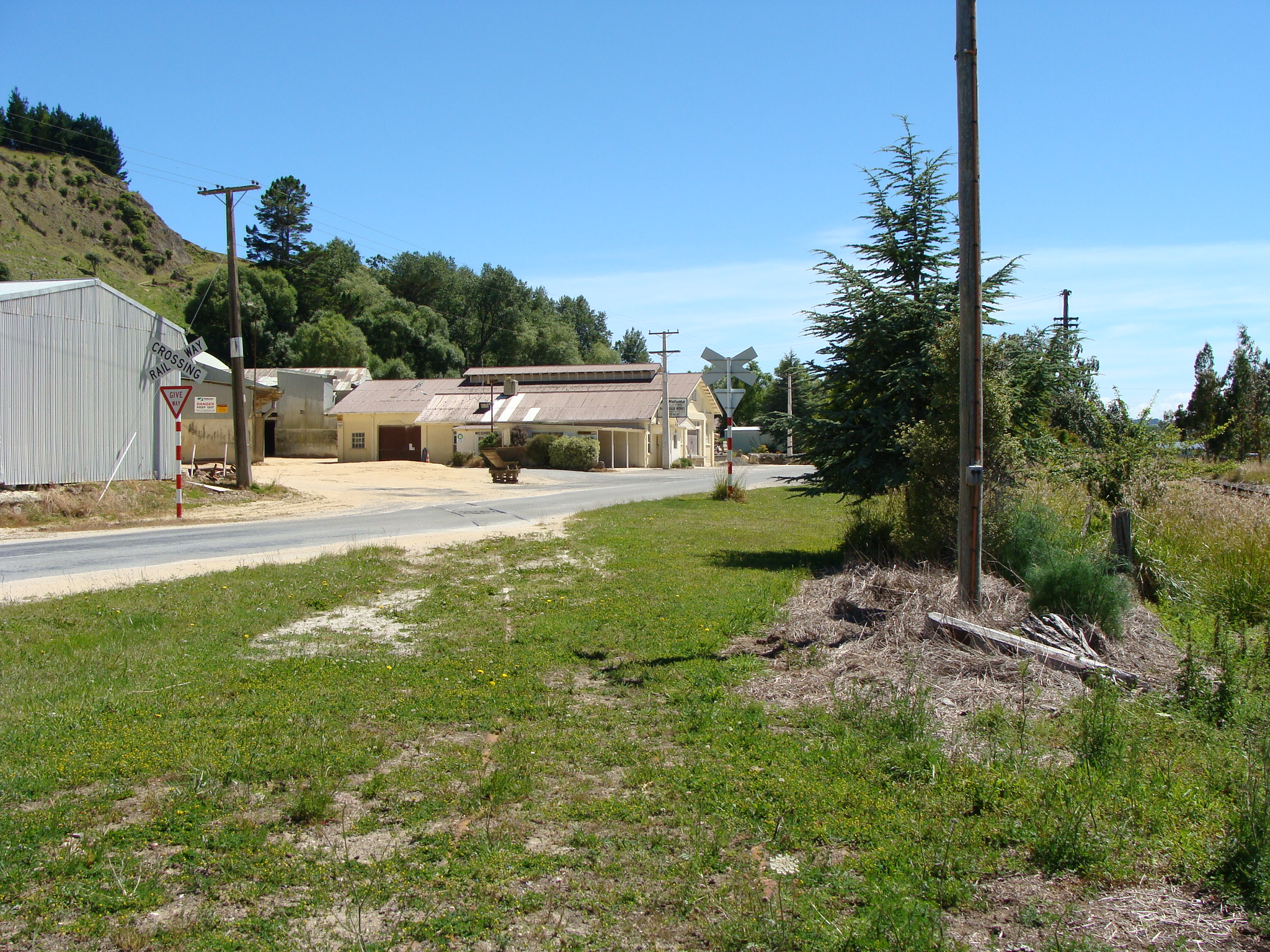 Hatuma Lime Company's private siding crossing Opaki Kaiparoro Road from Mauriceville railway station into the lime works yard.